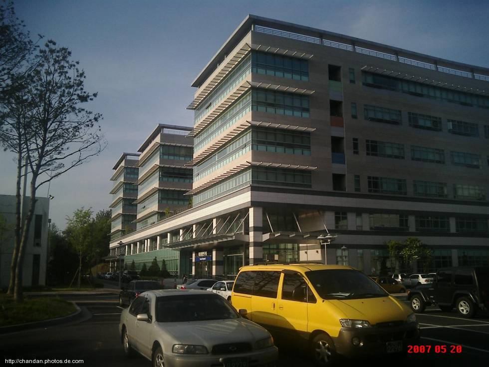 SAINT building from front by Chandan Biswas